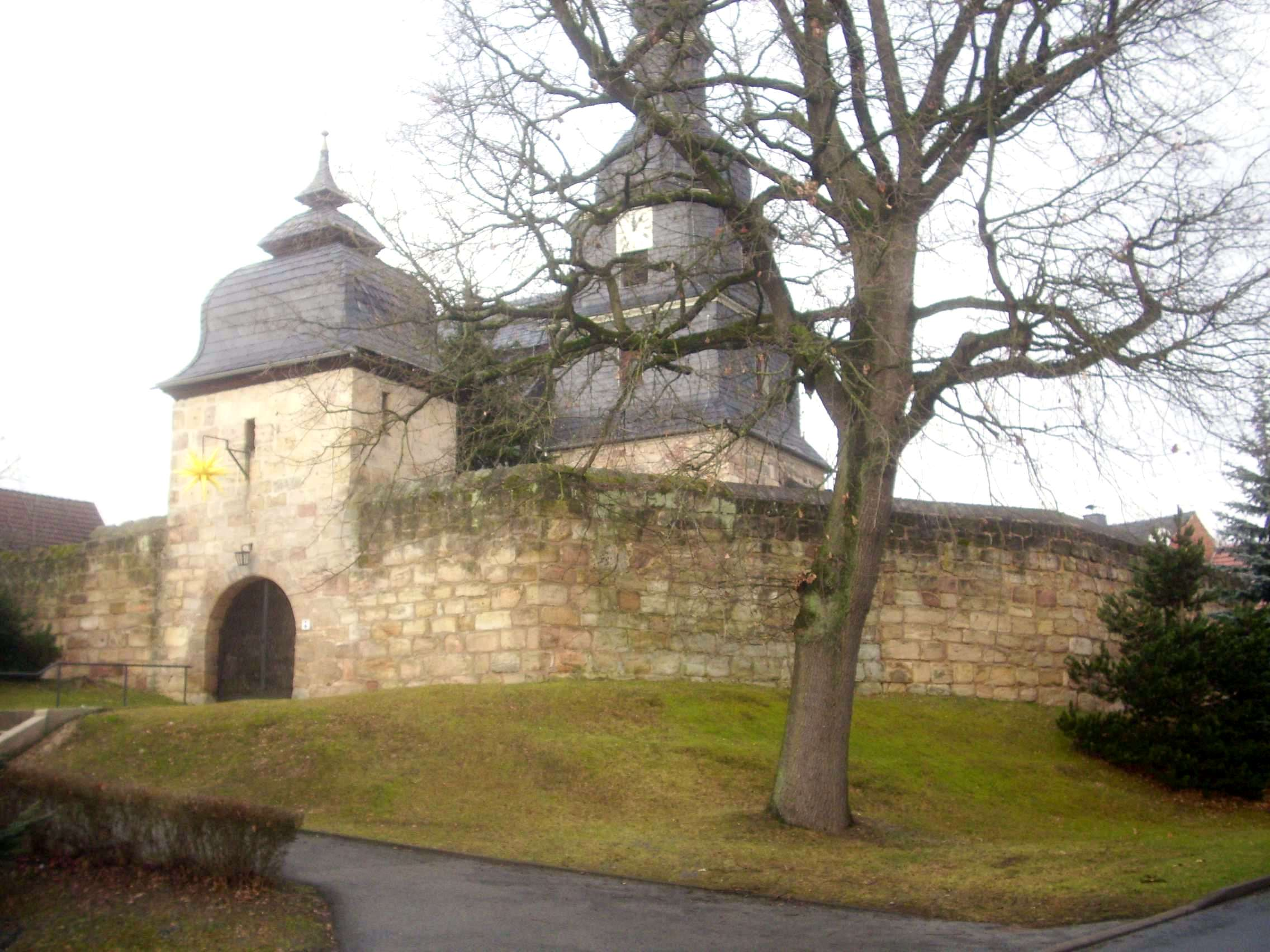 Gefell (Church-Castle); District of Sonneberg; Federal State (and Free State) of Thuringia; Germany Build in the late 15th century; later changes; of special interest: Curtain nearly complete (without battlement); gate tower with loopholes in the upper level.